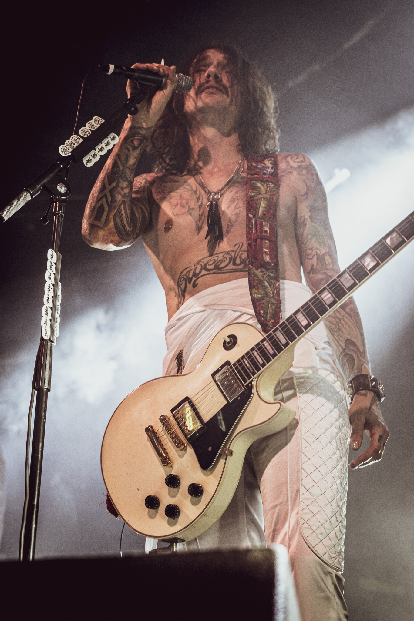 Justin Hawkins playing live with The Darkness at Dublin Academy, 27/11/2019